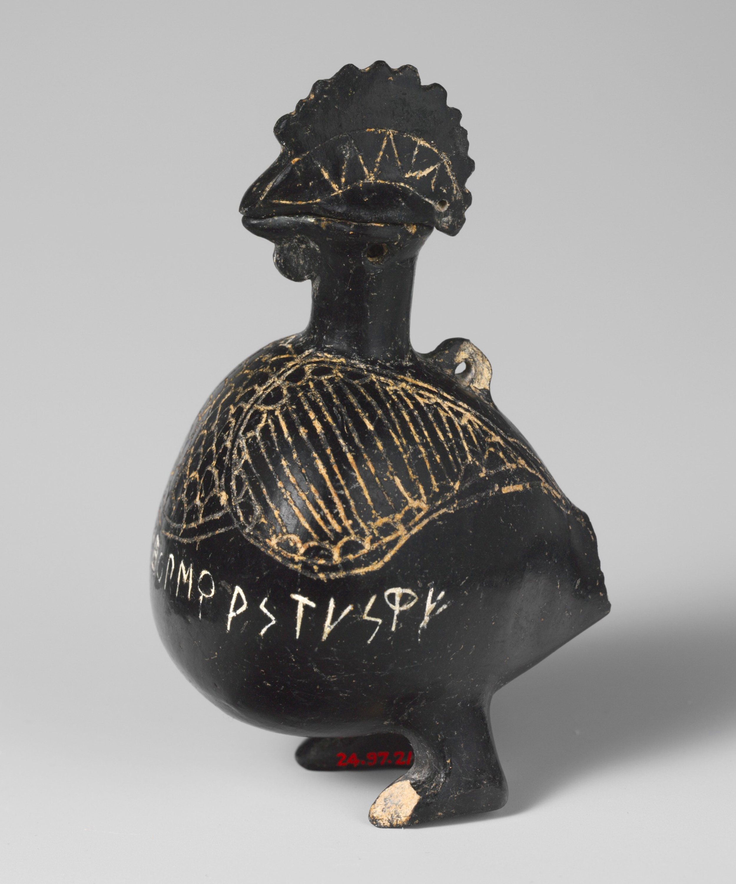 Terracotta vase in the shape of a cockerel with an alphabet inscription